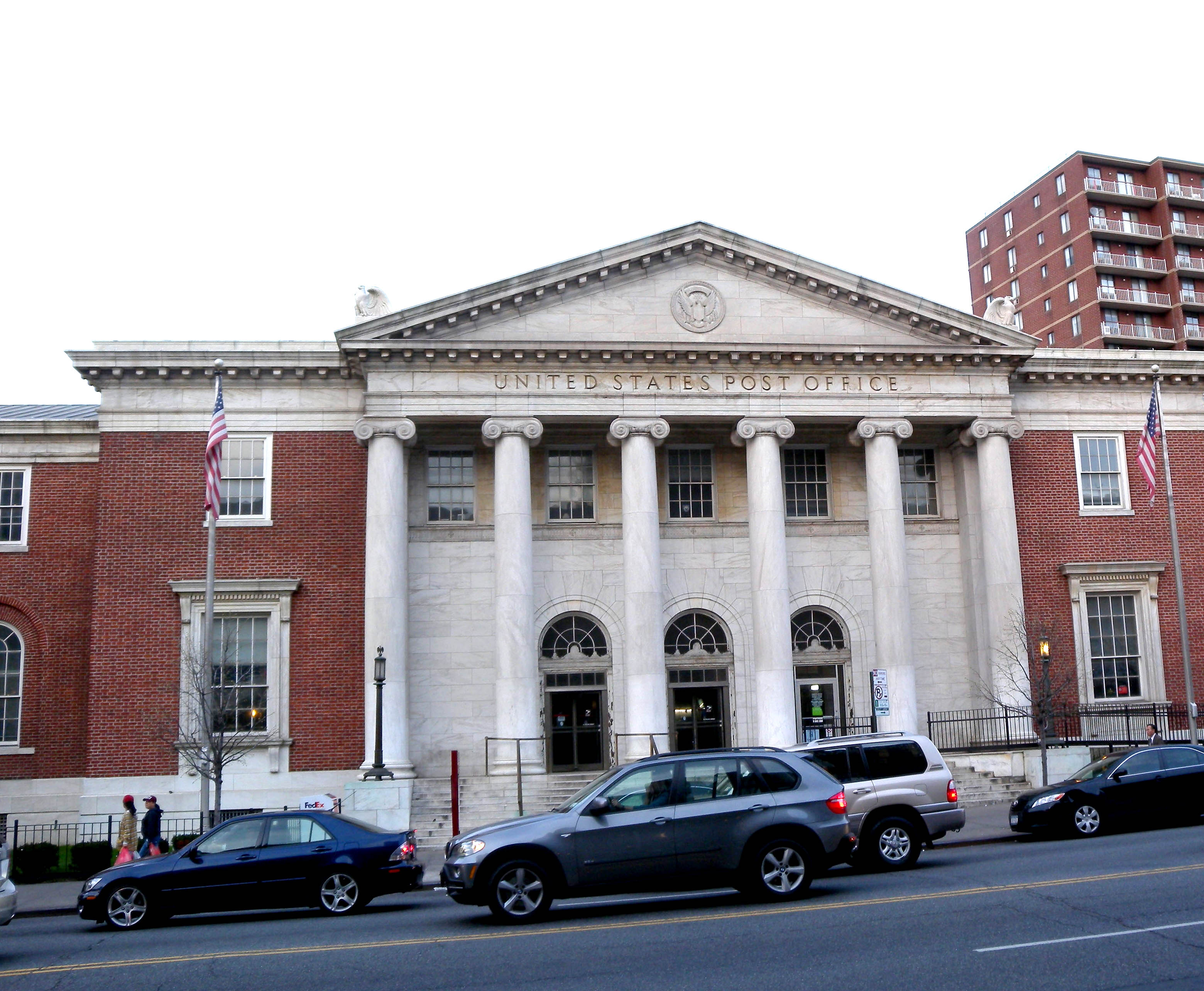 Looking east across Main Street at Flushing Post Office at dusk. Dwight James Baum design.